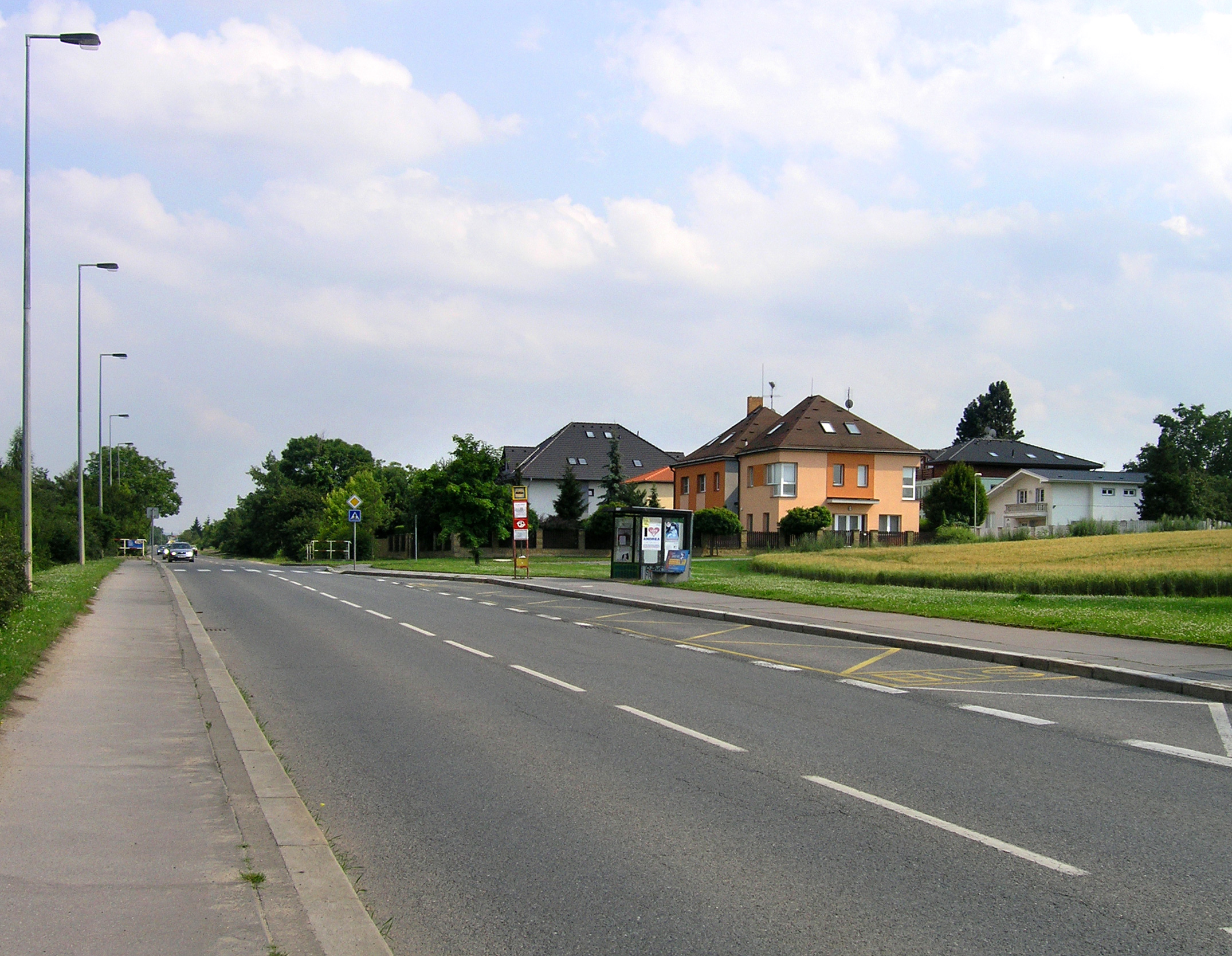 Vídeňská street in Kunratice, Prague